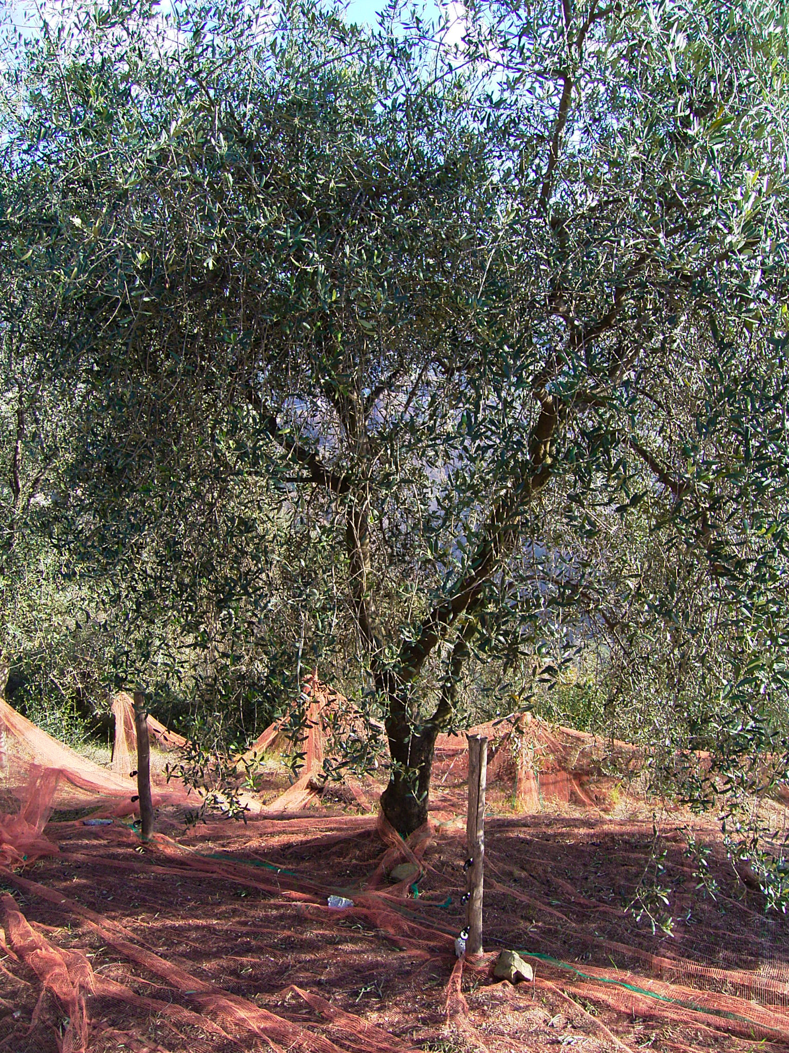 Olive harvest net, near Contes (Alpes-Maritimes, France), in the PDO "Olive de Nice" area (Cailletier cultivar of Olea europaea subsp. europaea)